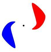 A point reflection in the plane.